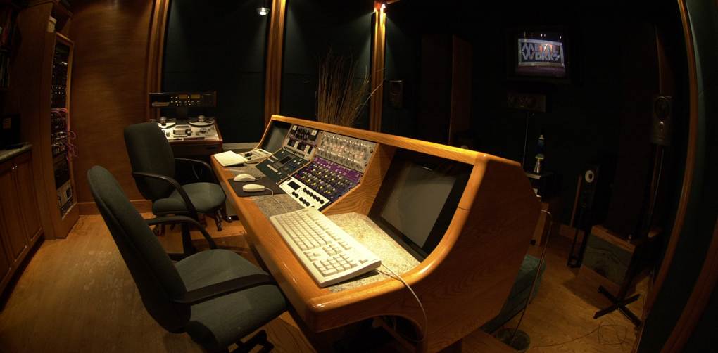 Metalworks Studio 5 Mastering Suite Control Room features Steinberg WaveLab, Pro Tools HD3, Manley, Avalon, Apogee, Studer A820 1/2" Tape Machine, Weiss, TC System 6000, Waves Audio, Mark Levinson, and Duntech.